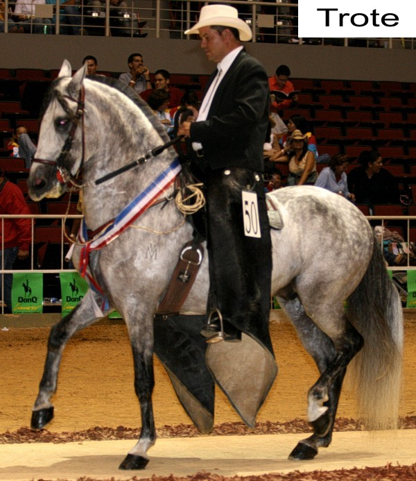 Colombian Criollo Trote Horse